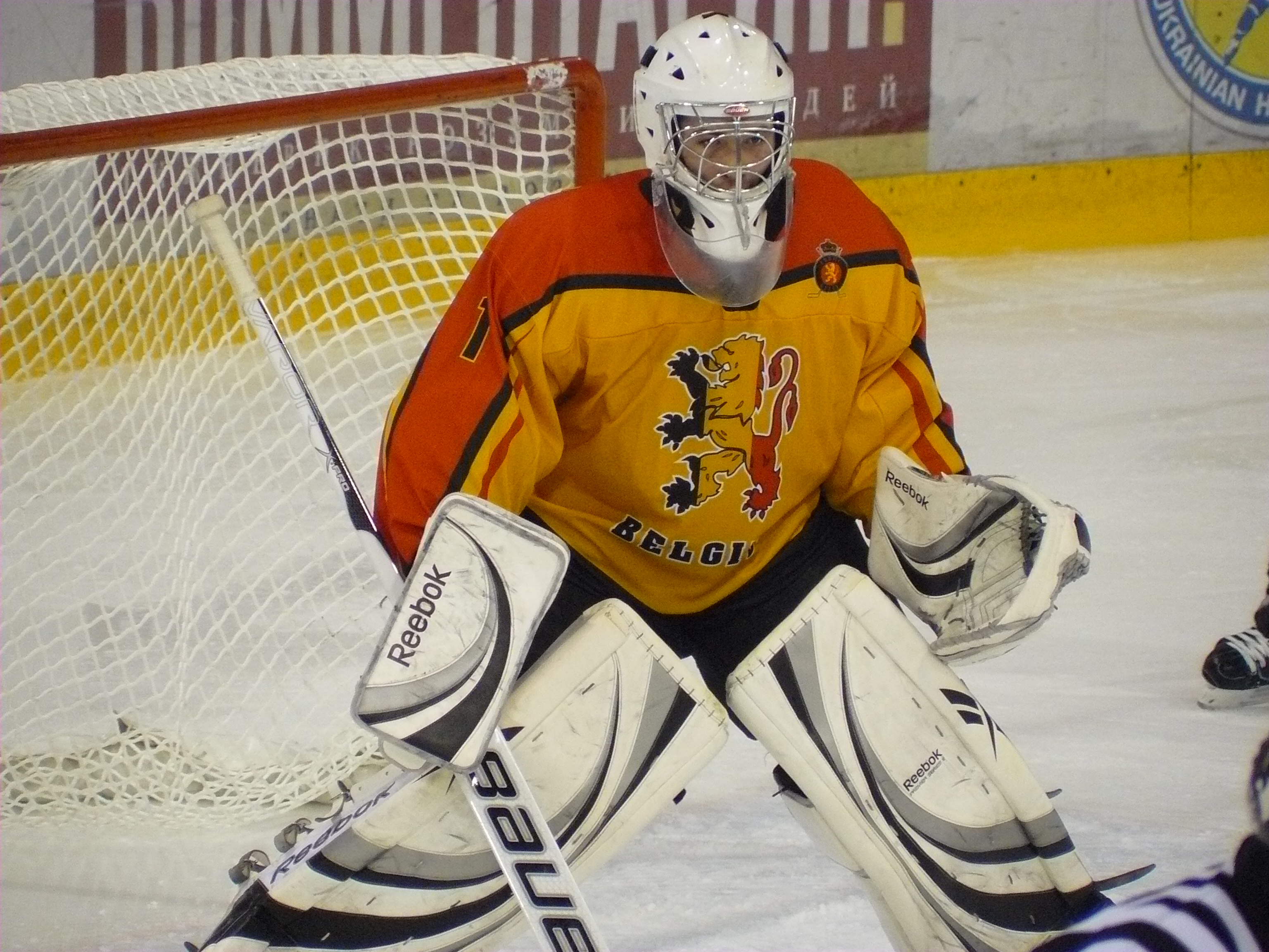 Goalkeeper Jean Cornelis #1 of the Belgium during the 2010 IIHF World U18 Championships Division II Group B game against the Ukraine on 22 March 2010 at the Terminal Arena in Brovary, Ukraine. Ukraine won the game 8:0.